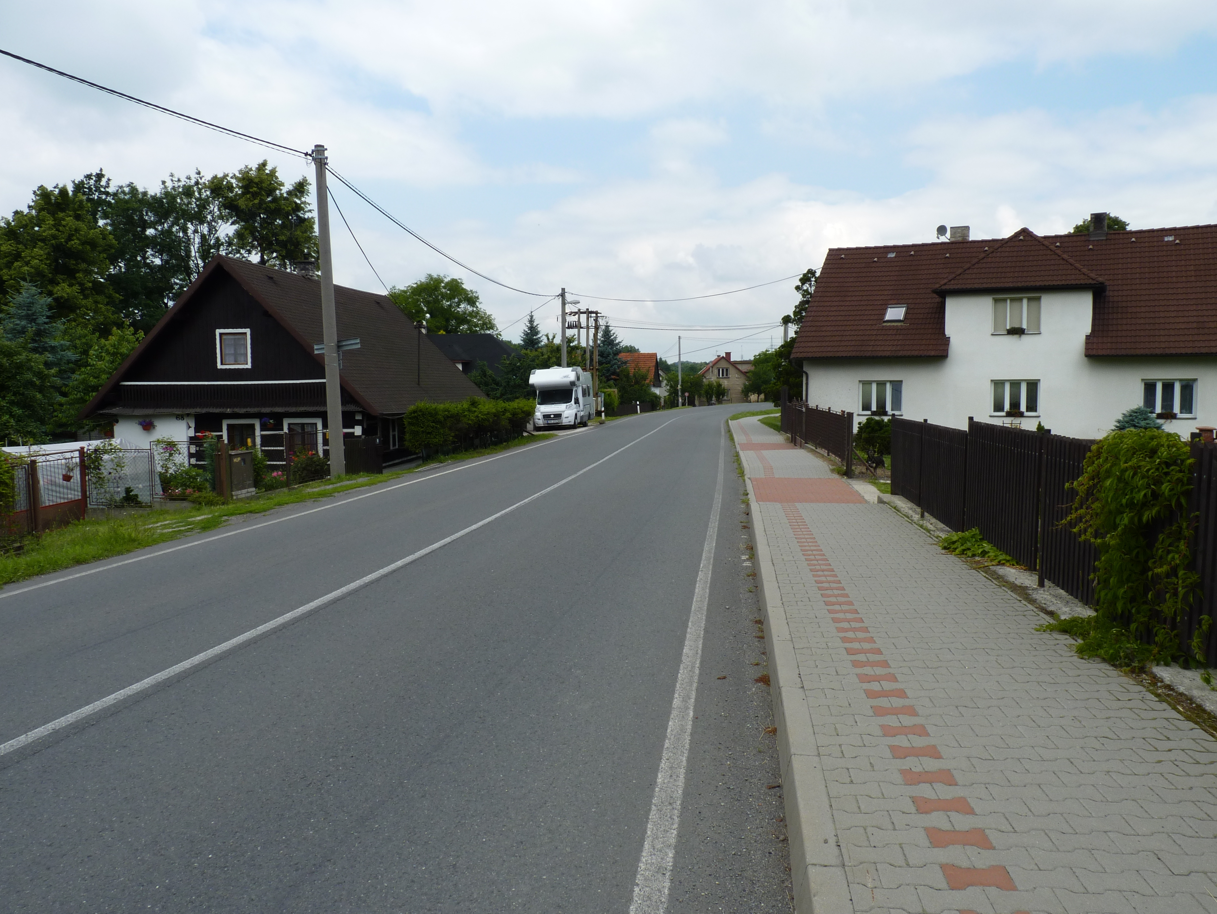 Vyšní Lhoty. Frýdek-Místek District, Moravian-Silesian Region, Czech Republic